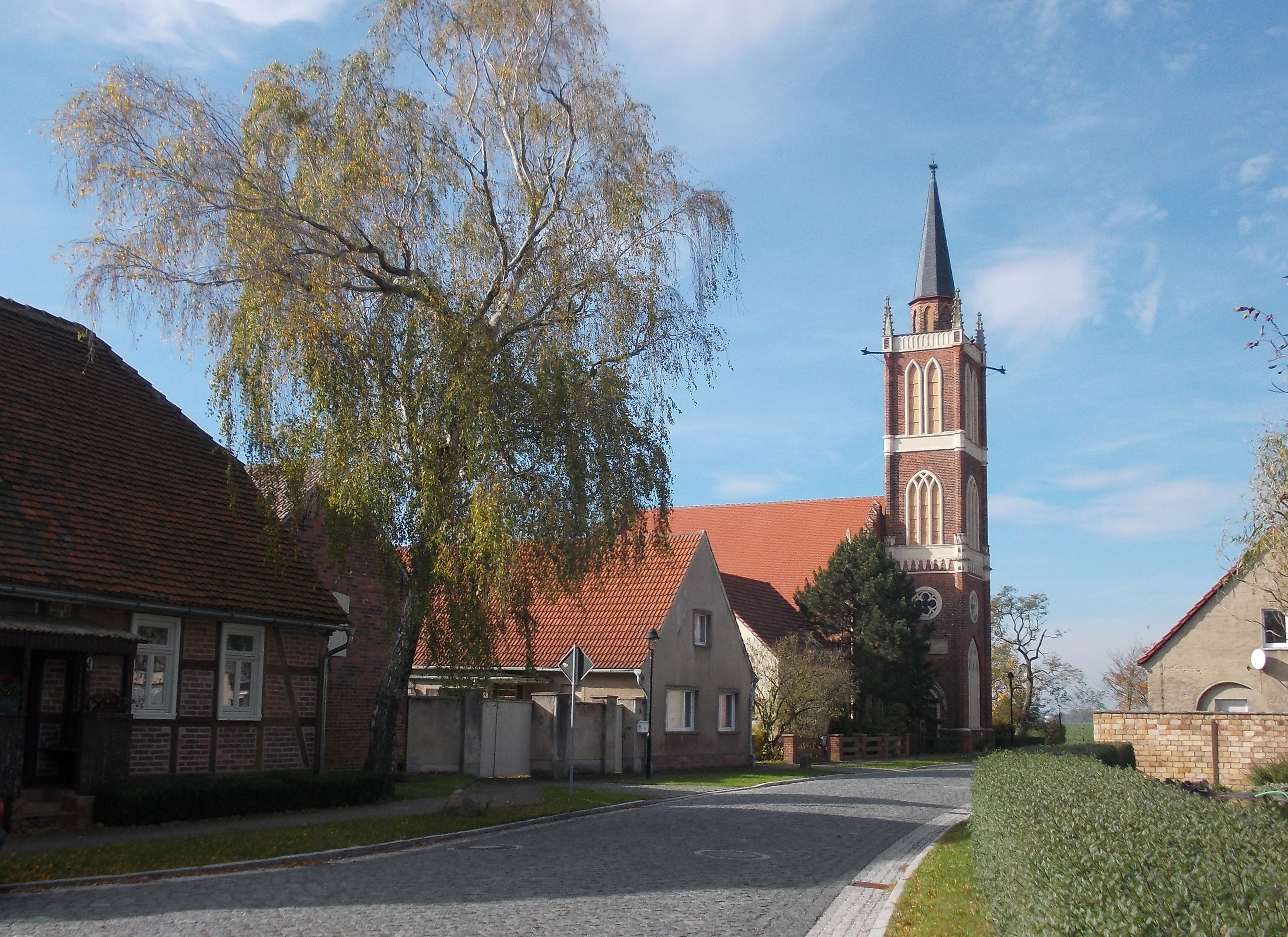 Riesigk church (Oranienbaum-Wörlitz, Wittenberg district, Saxony-Anhalt)